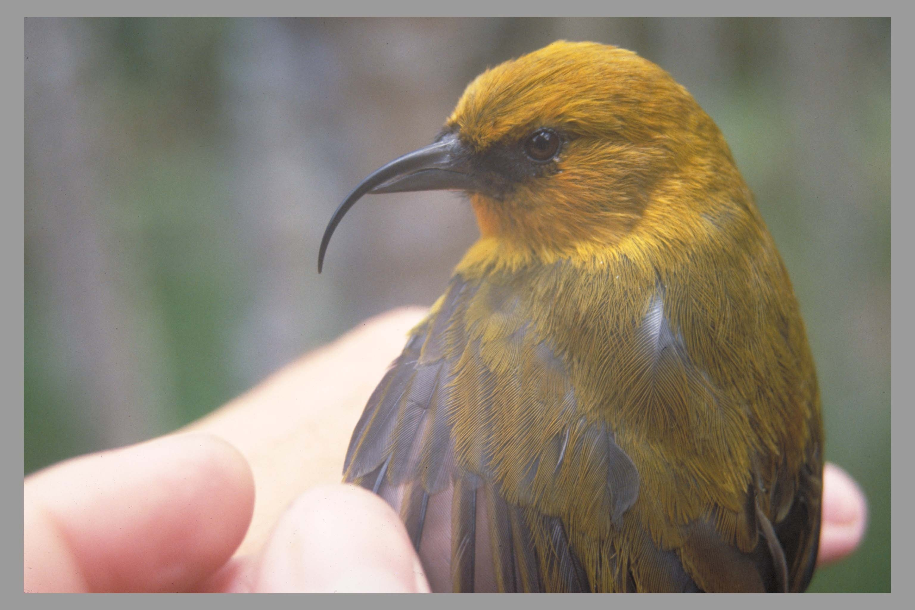 'Akiapōlā‘au (Hemignathus munroi), Kulani Forest, Hawaii, USA. 1992.